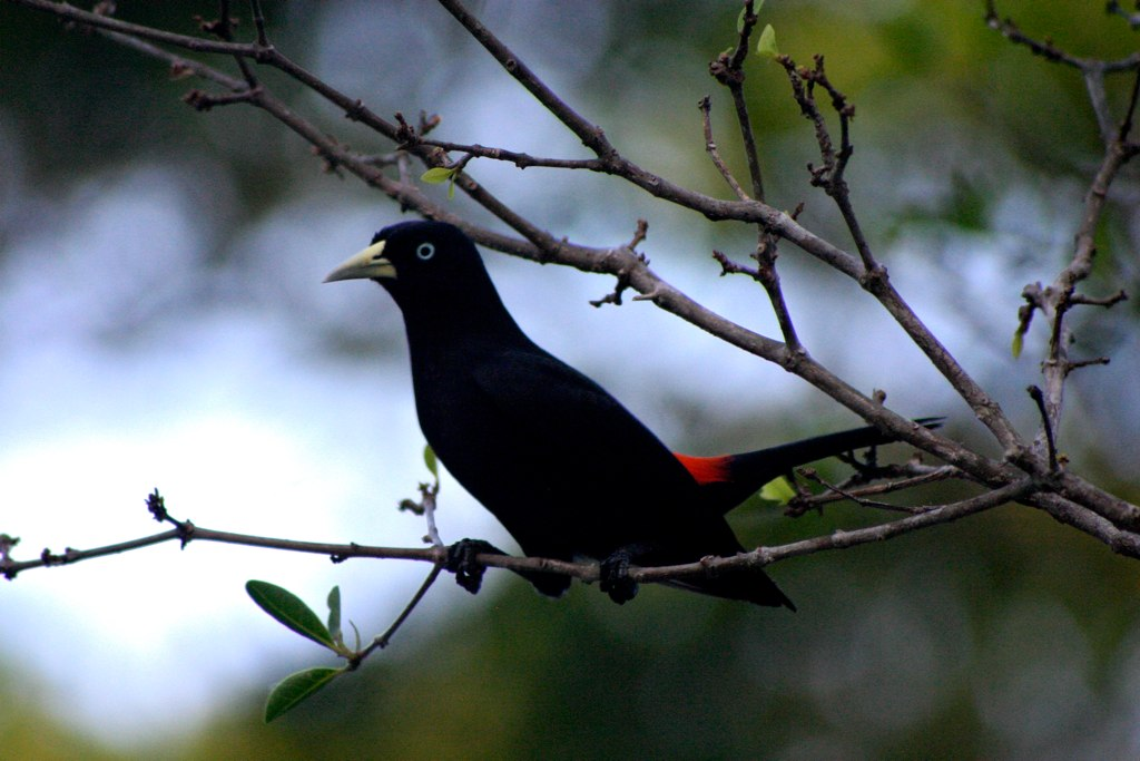 Scarlet-rumped Cacique in Panama.